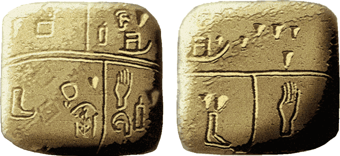 Limestone tablet engraved with pictographic writing. It comes from the mesopotamic city of Kish (Iraq), dated from 3 500 BC. It is drawn in real size, approximately. Probably, it is the earliest known evidence of writing, and contains pictographs of heads, feet, hands, numbers and threshing-boards. Department of Antiquities, Ashmolean Museum, Oxford (United Kingdom).